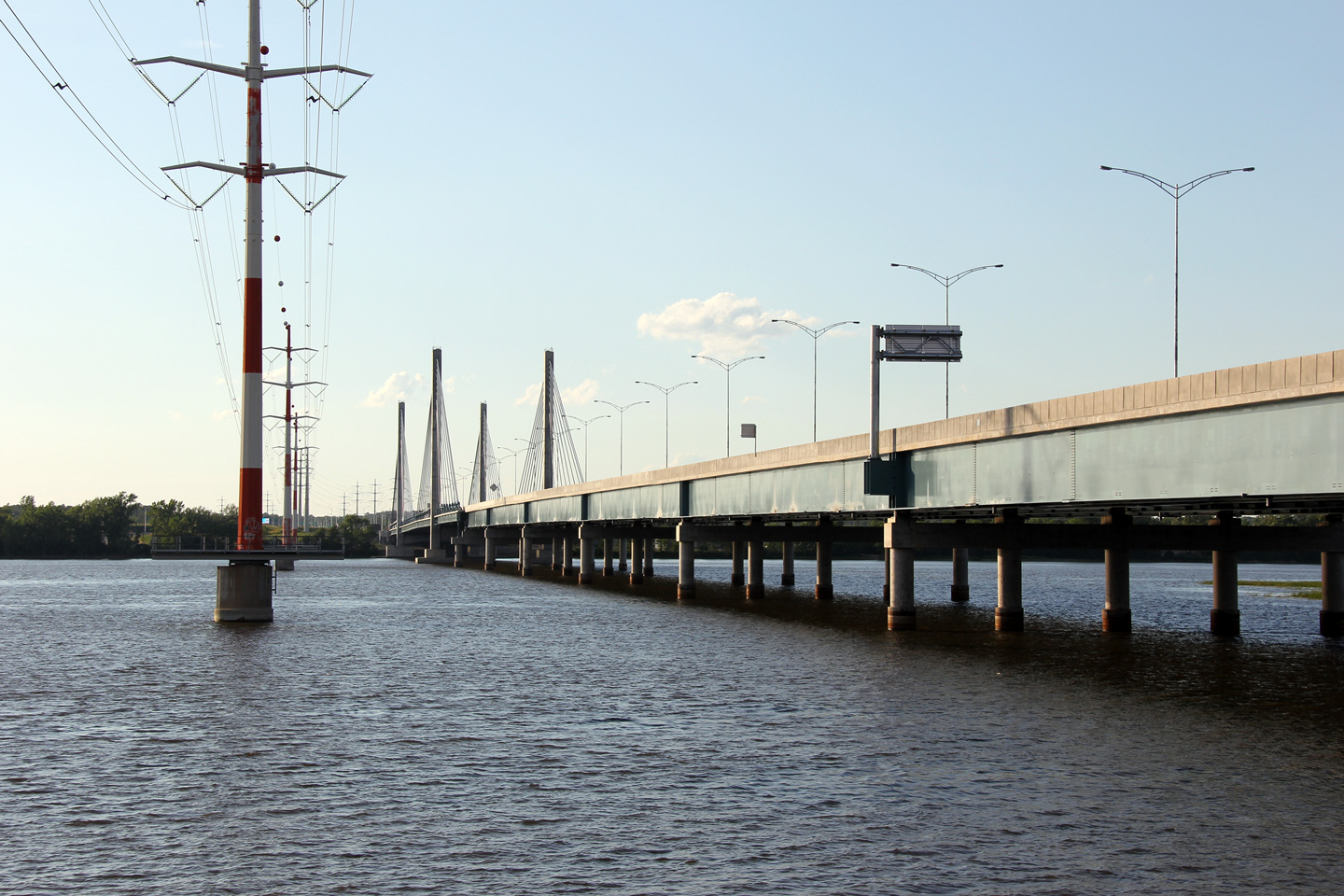 A25 structure 12-8 west lg, Olivier-Charbonneau Bridge on Riviere des Praries.